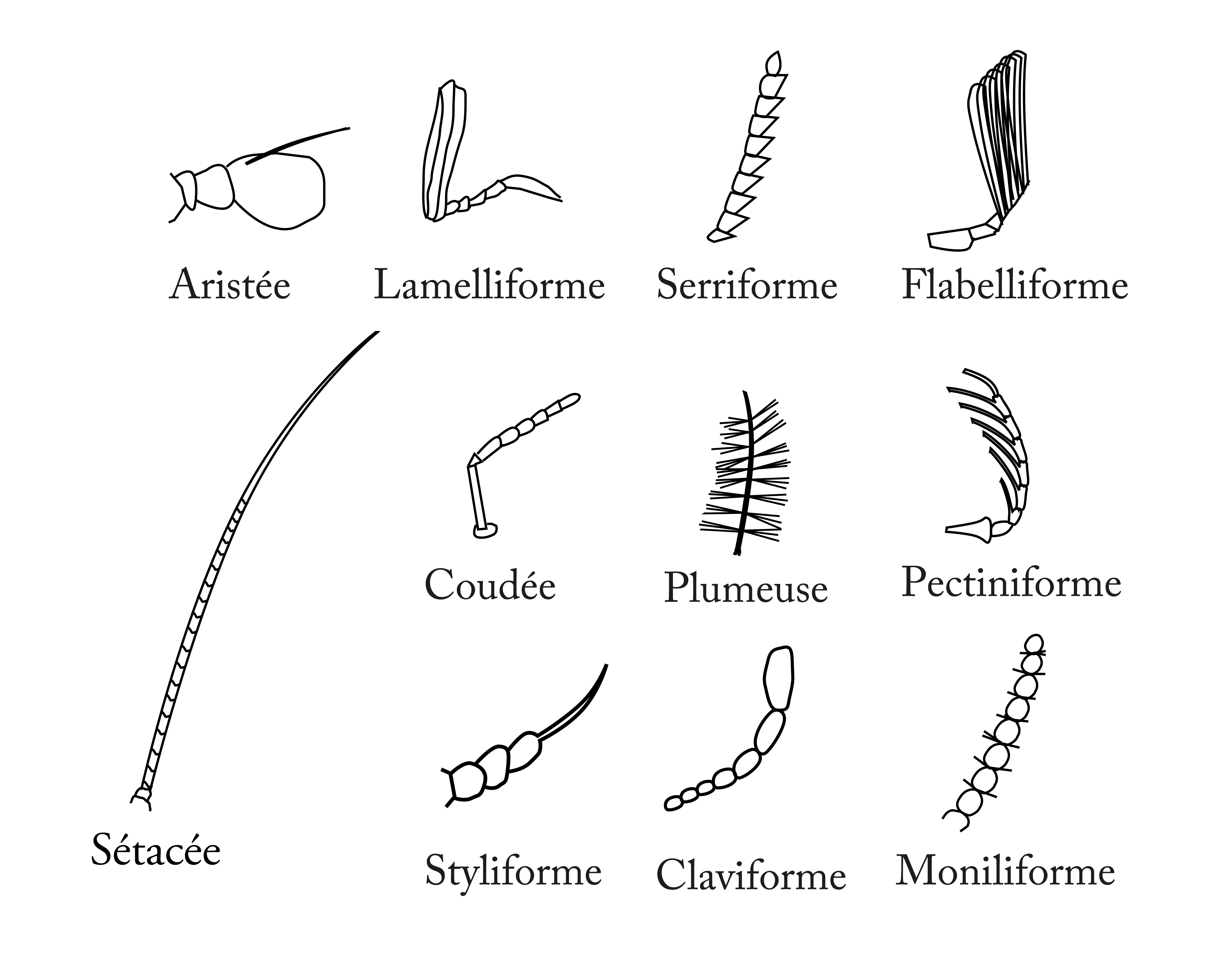 Antenna type for French wiki